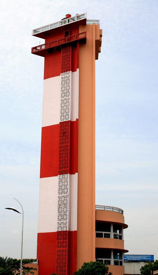 Chennai Light House